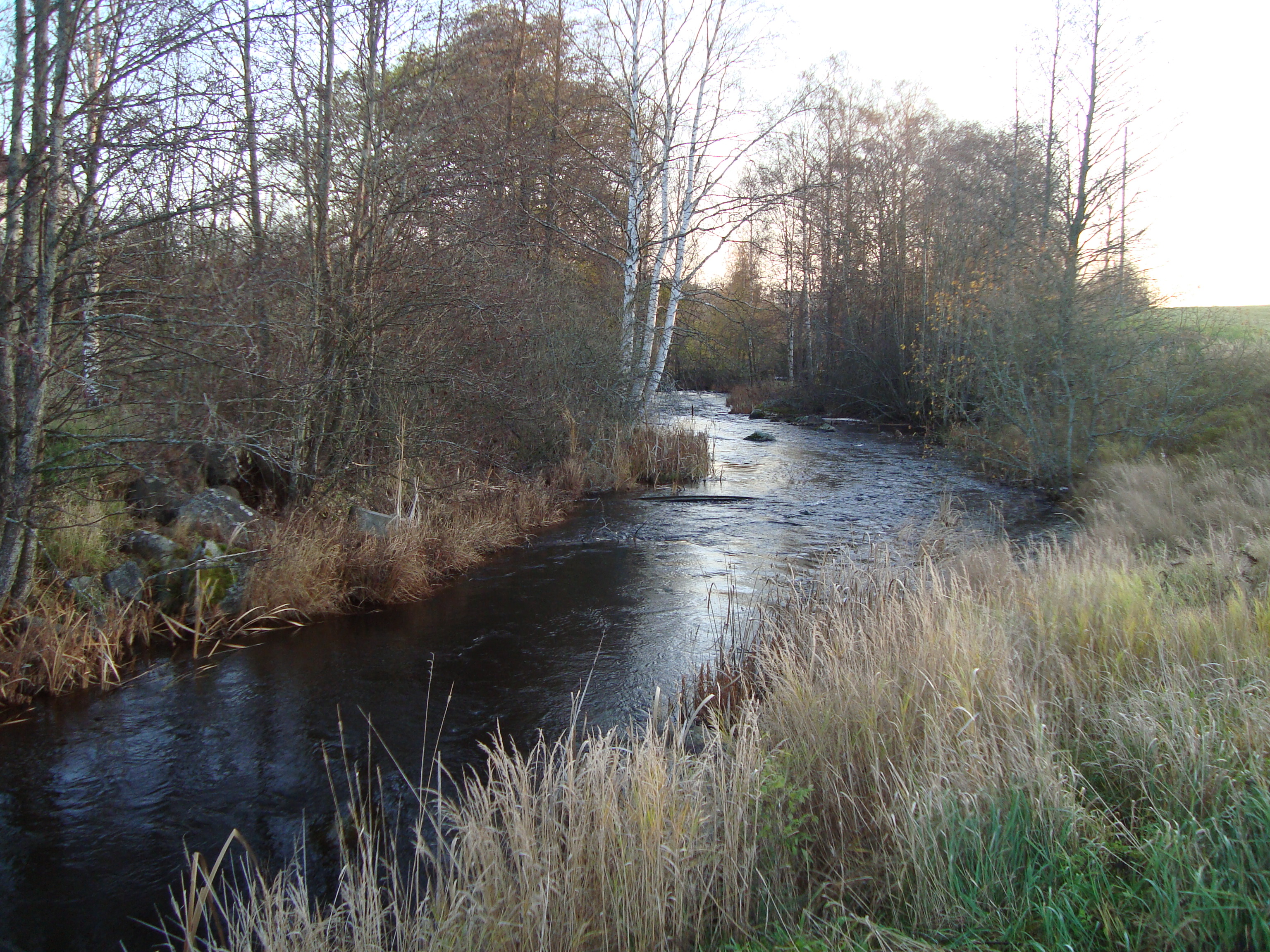 Stream Lustån in Djörkhyttan, Hedemora municipality, Sweden